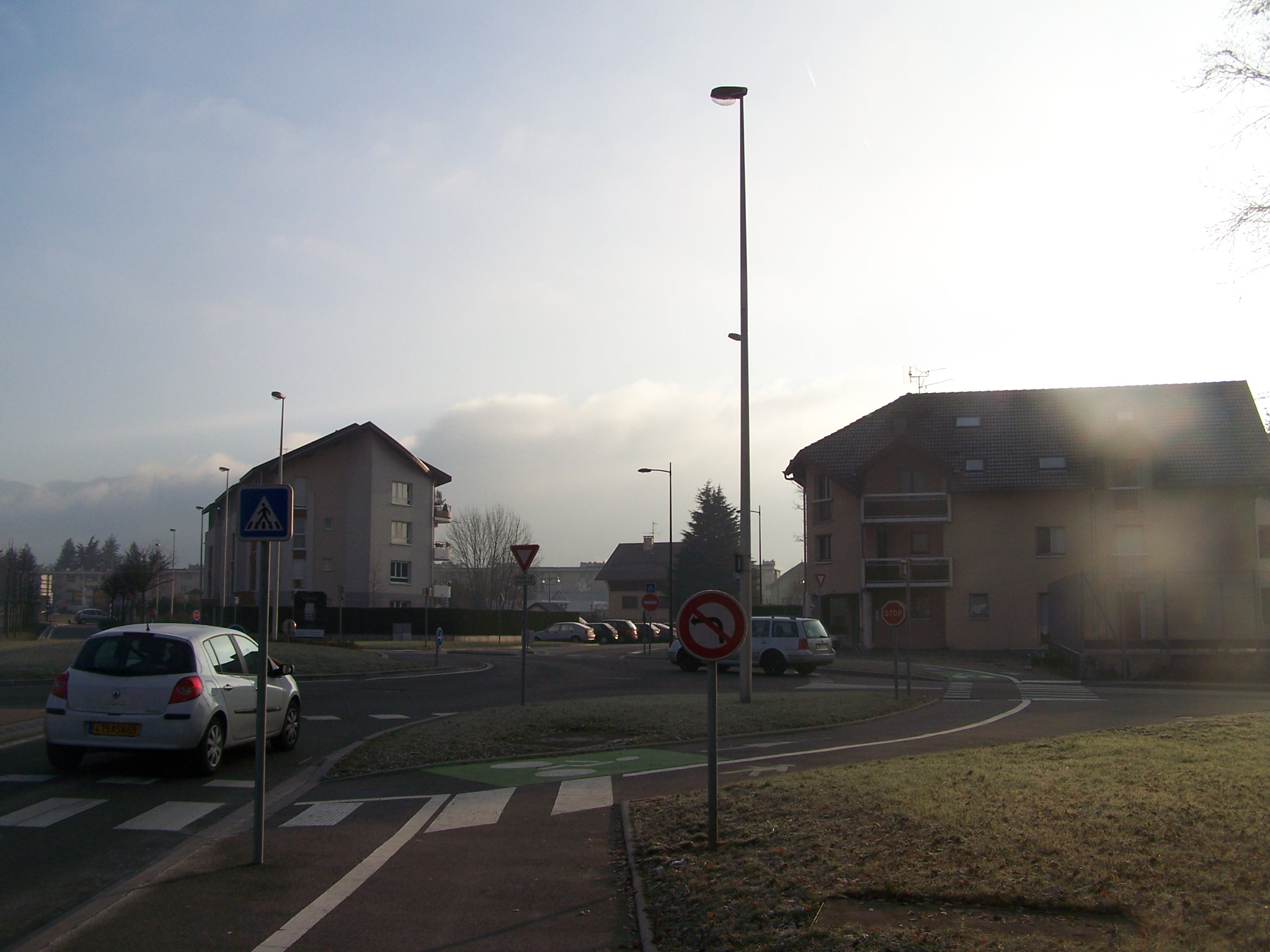 Western entrance of the Savoyan commune of Meythet at the morning of a bitterly cold day.